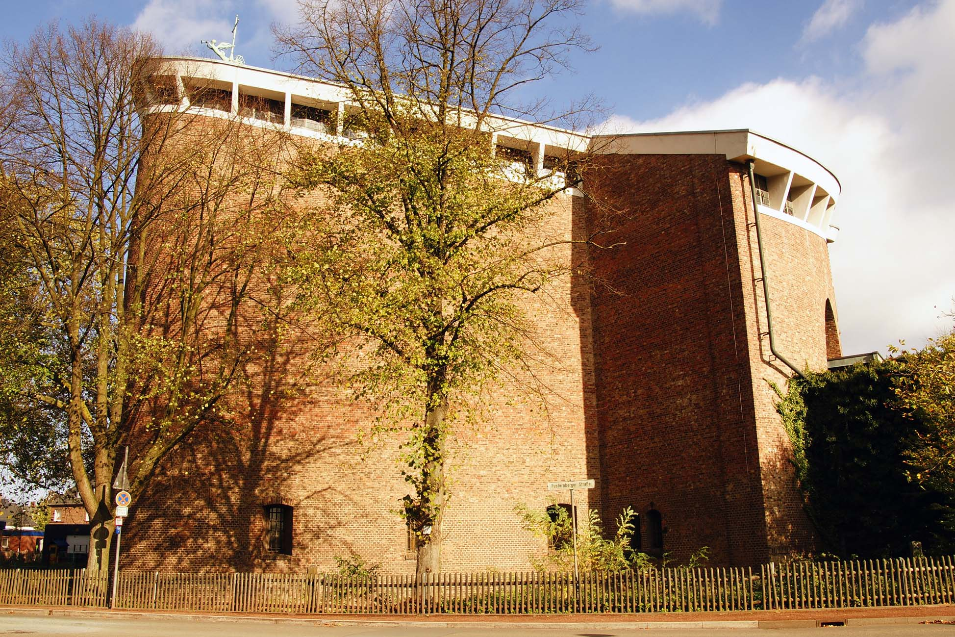 Friedenskirche zu den Heiligen Engeln und altes Fort Fusternberg